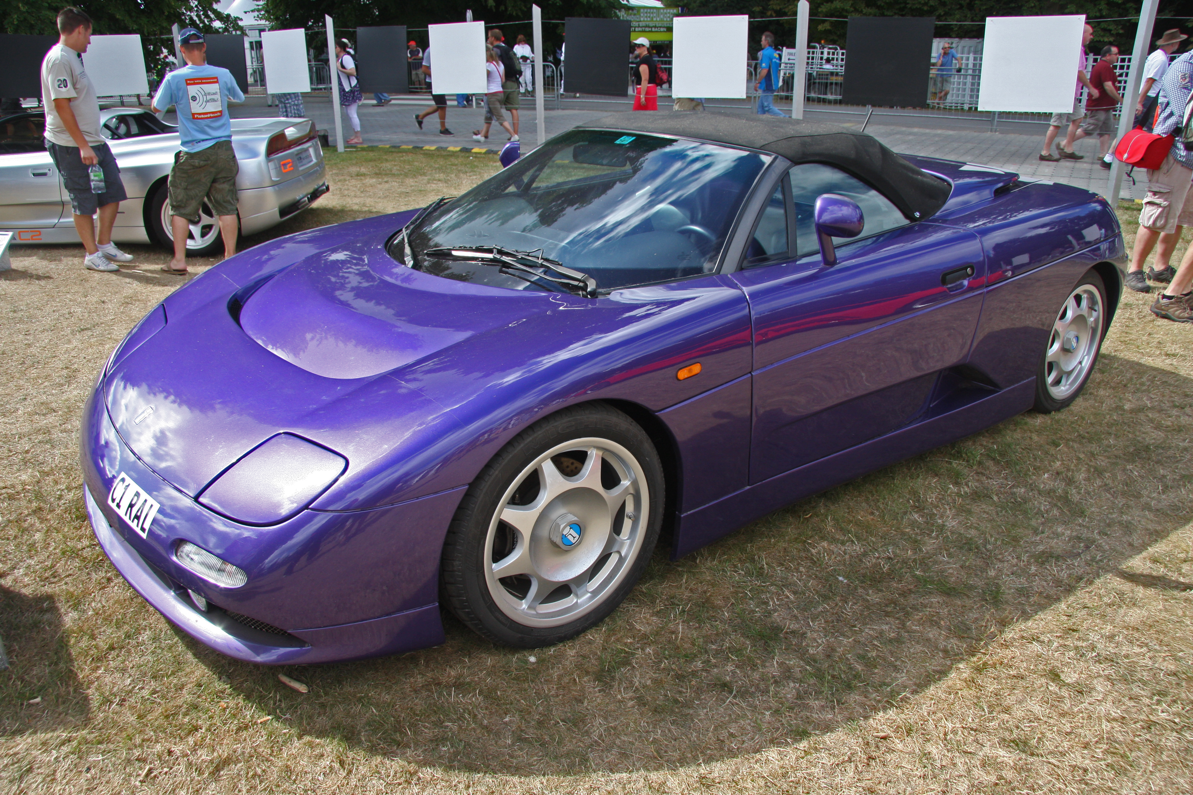 1998 BMW-engined De Tomaso Guarà Spider, of which only five were built